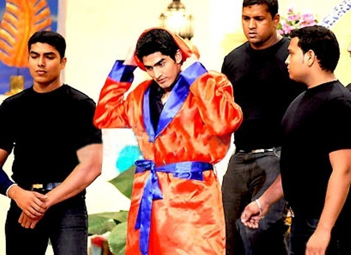 Boxer Vijender Singh prepairing for a boxing match on a television show